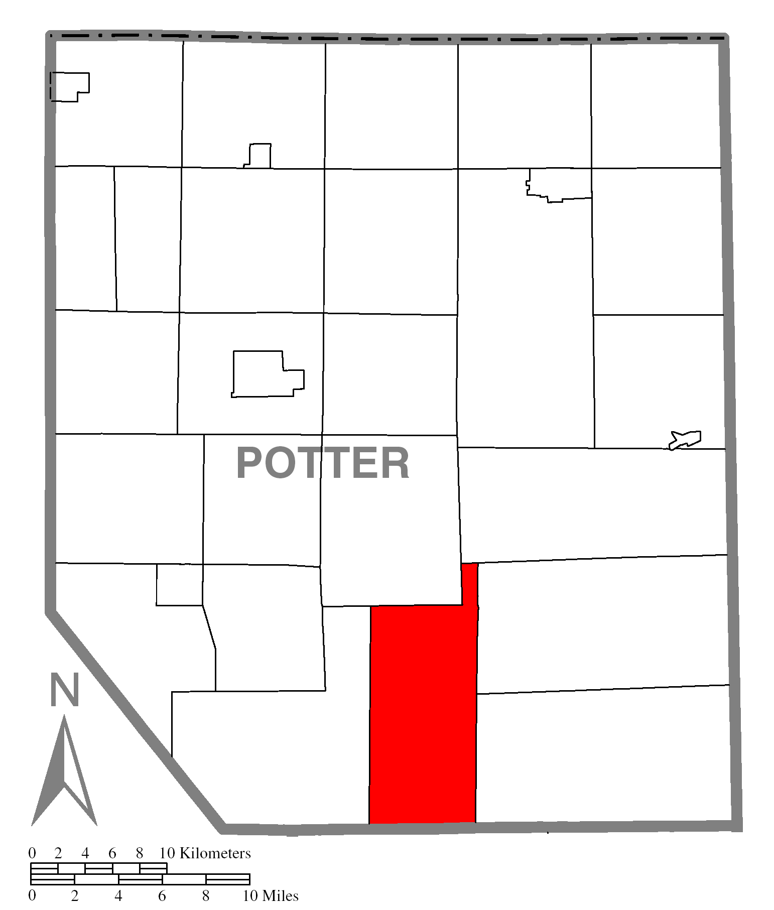 A map of Potter County showing East Fork Township, Pennsylvania (alternate) highlighted on the map.